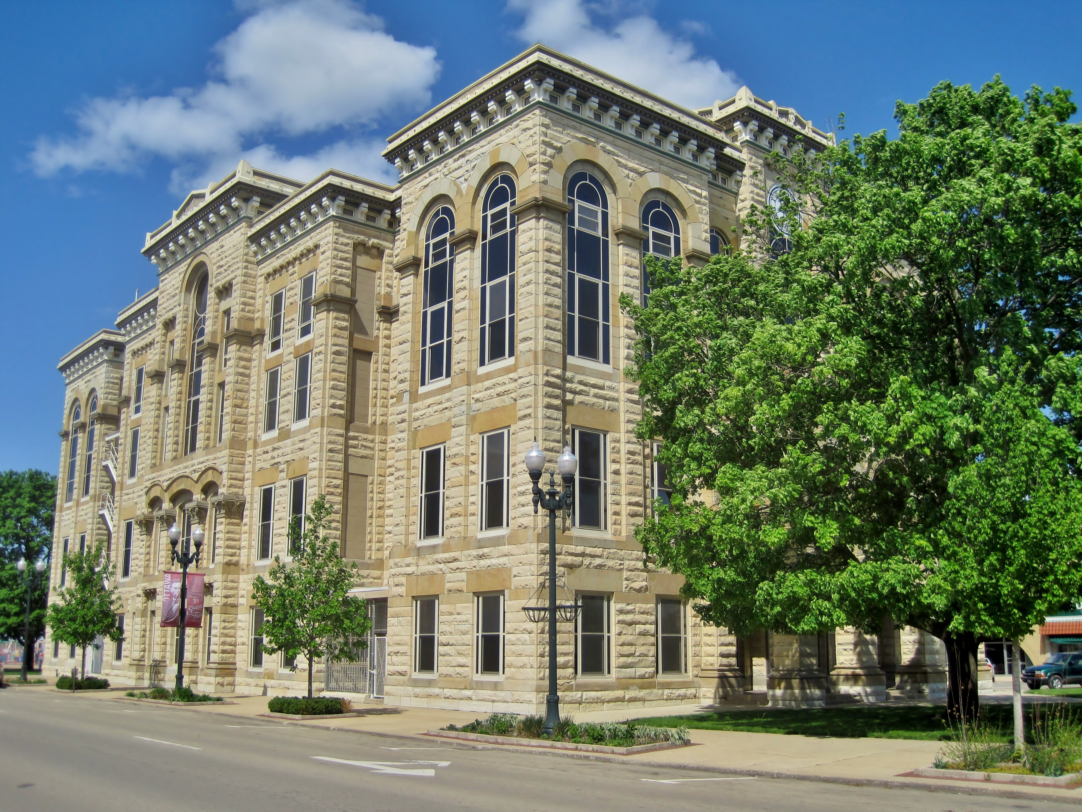 Front of the LaSalle County Courthouse, located at 119 W. Madison Street in Ottawa, Illinois, United States. It was built in 1883.